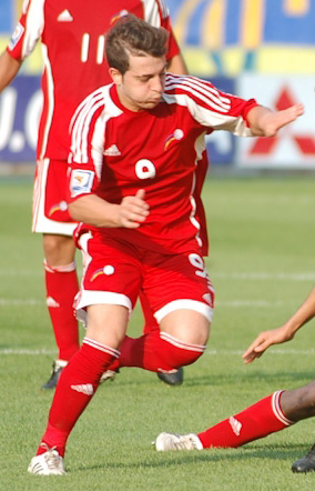 Joan Toscano, Andorran footballer, during the game Ukraine vs Andorra